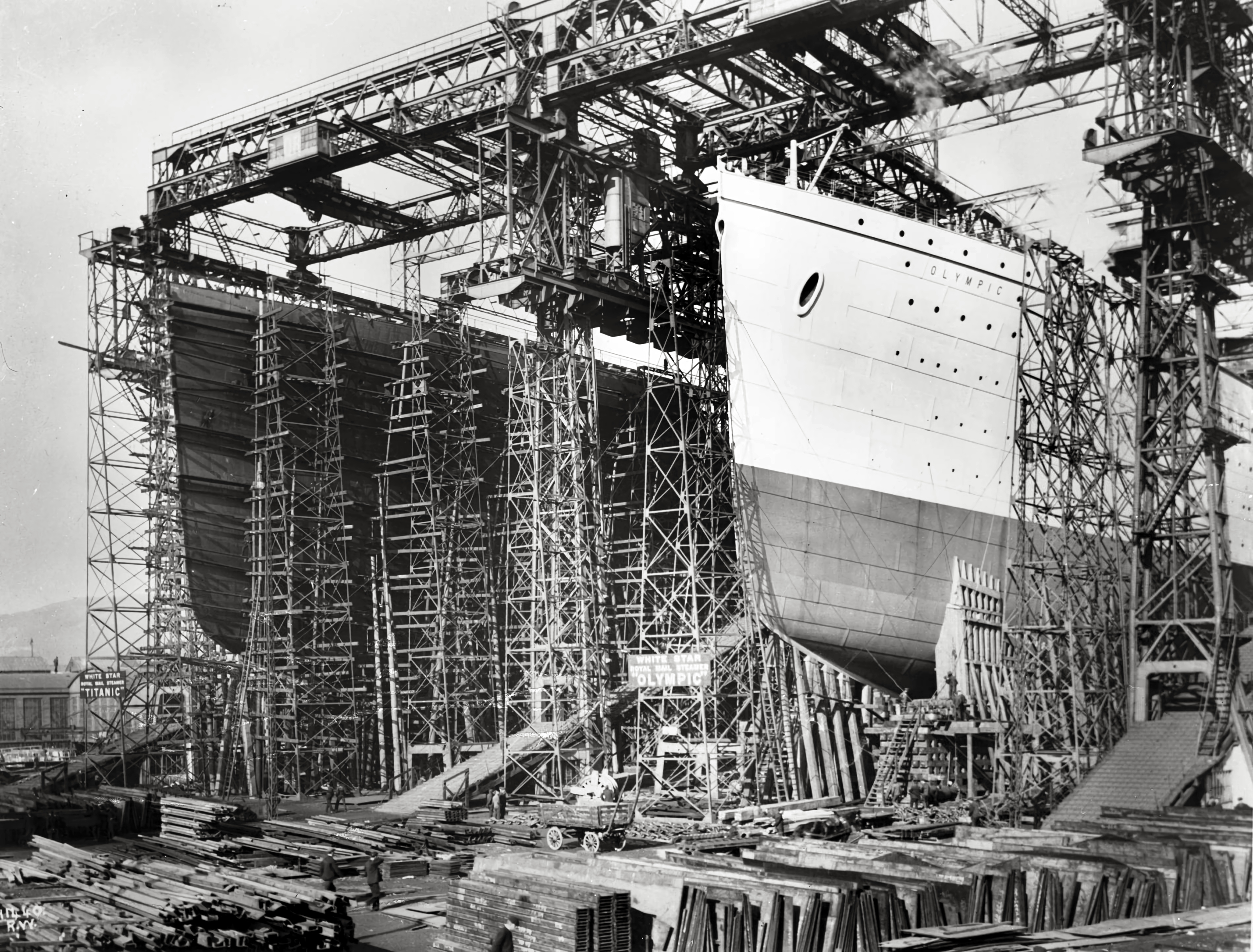 RMS Olympic and RMS Titanic under construction in Belfast, Ireland, October 1910